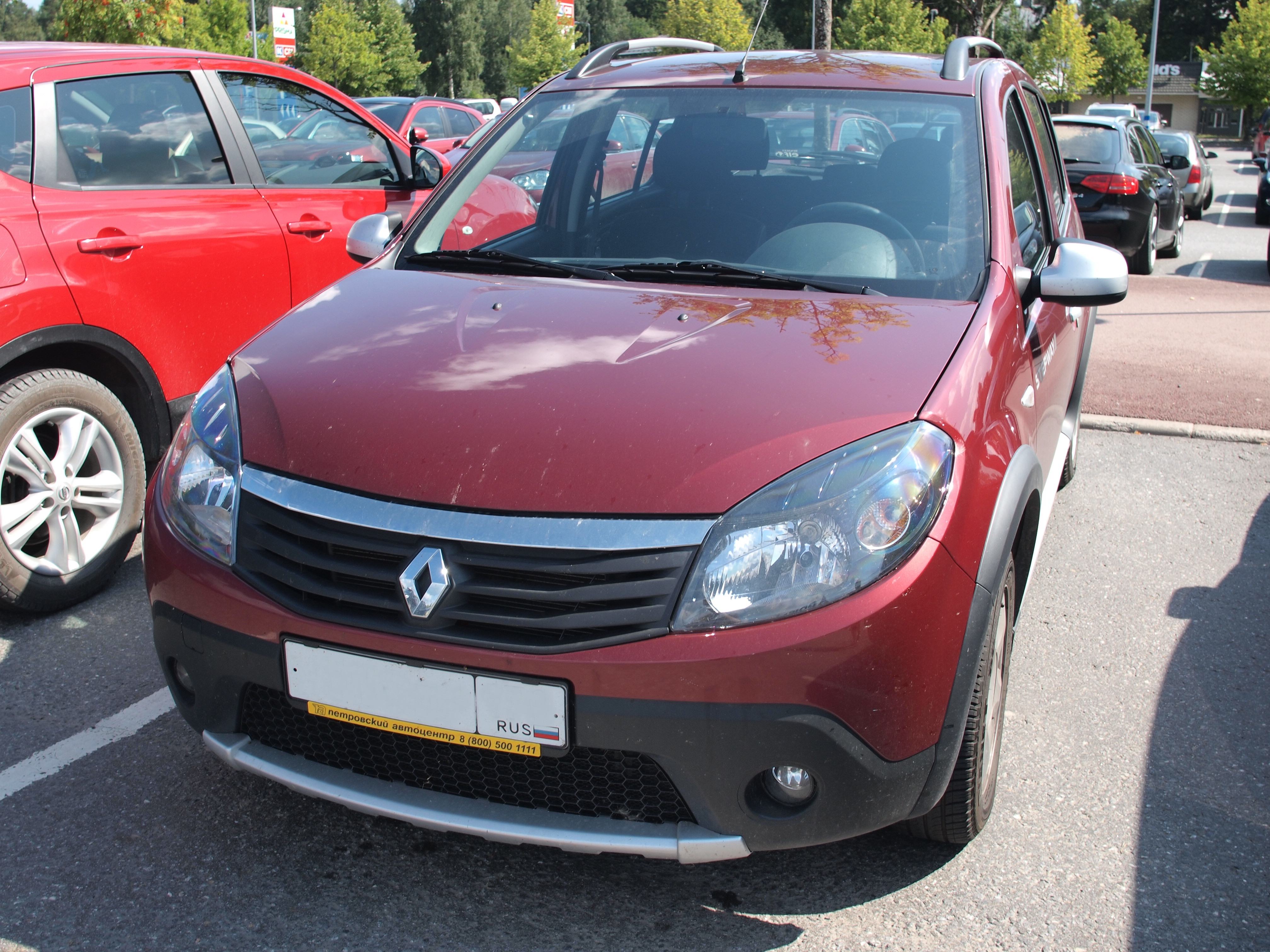 Renault Sandero Stepway in Mikkeli, Finland.